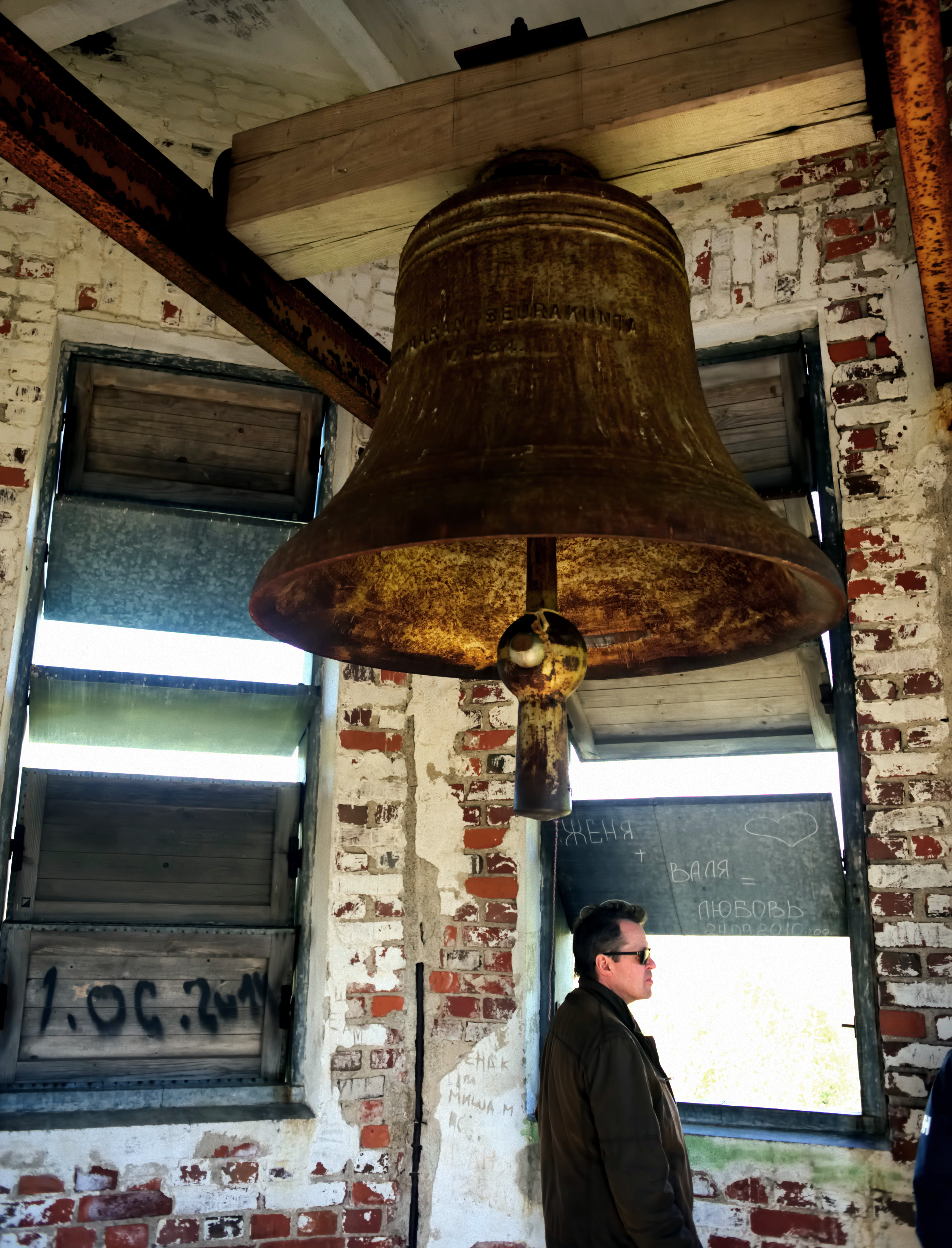 Lumivaara Church May 14th 2016